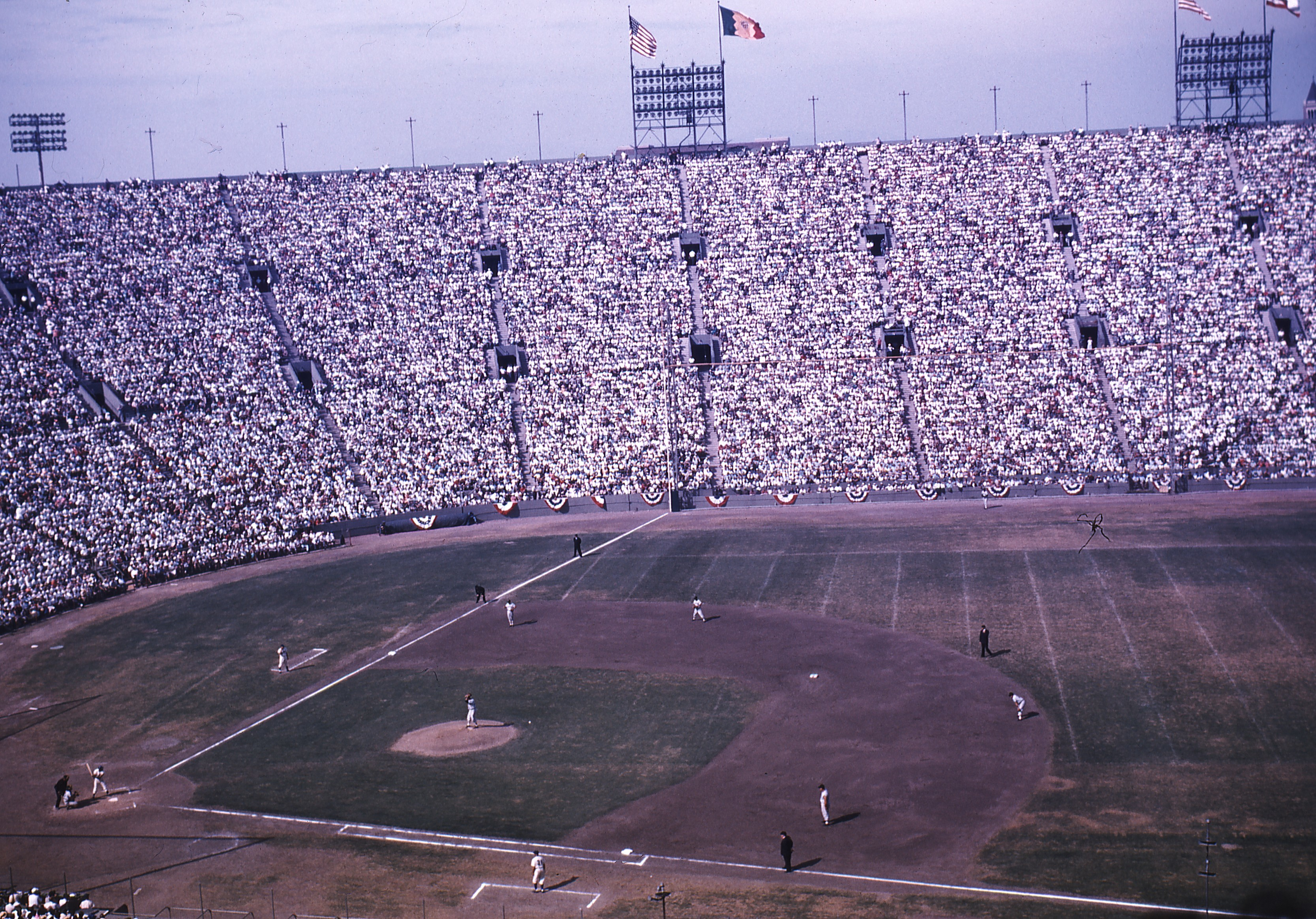 I believe this is Game 4 based on the other slide I have. Roger Craig was the starter for the Dodgers.